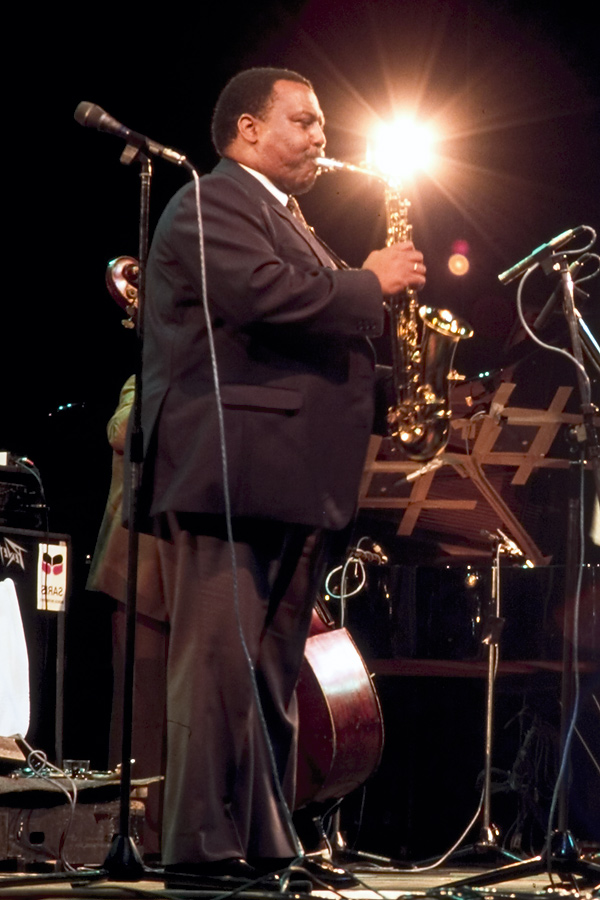 Arthur Blythe at a Concert at the North Sea Jazz Festival 1989 with "The Leaders".